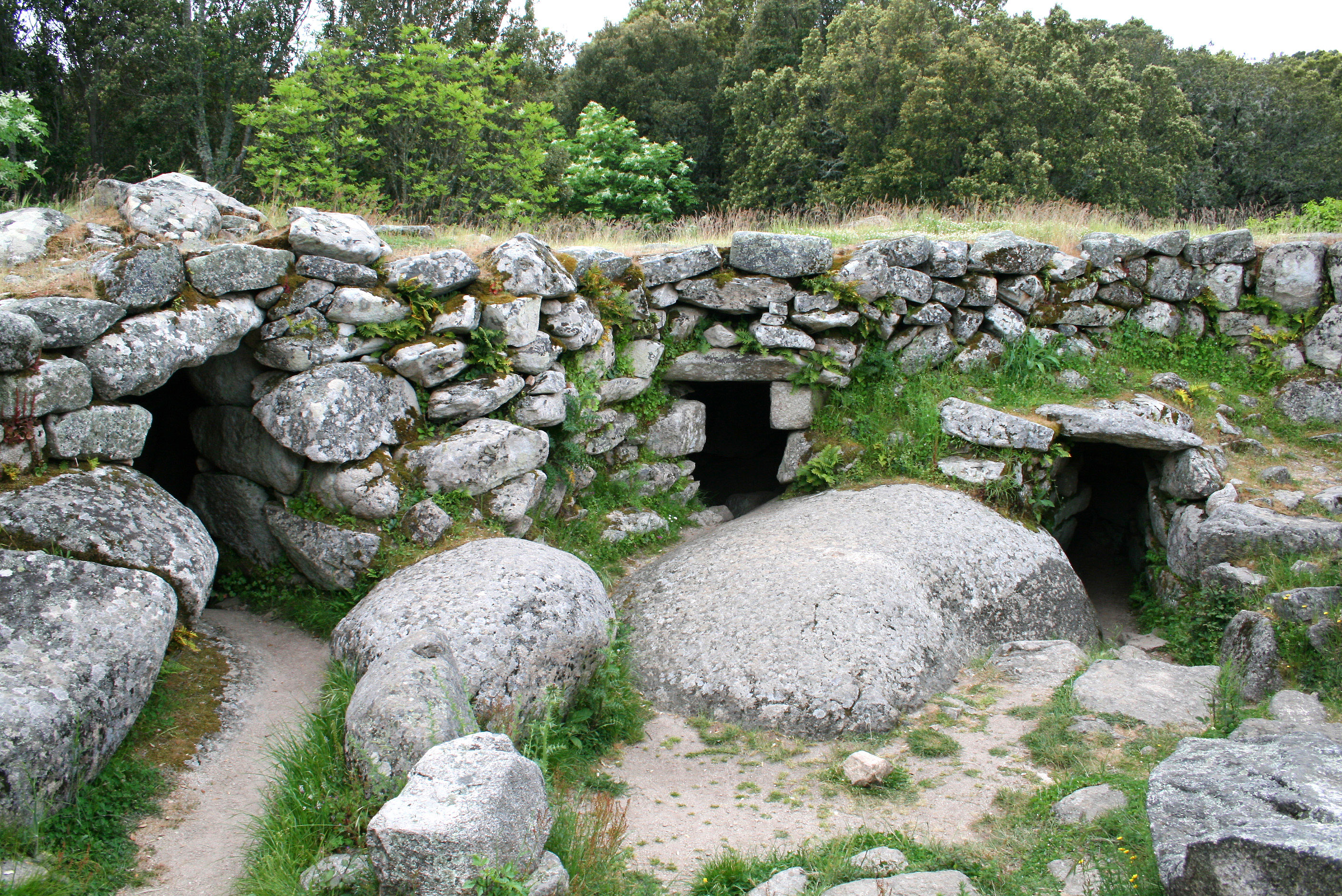 Levie France (Corse-du-Sud), the ruins of the Cucuruzzu prehistoric castle. Walon: Levie France (Corse-do-Sud), lès rwines dol forterèsse prèistorike di Cucuruzzu.